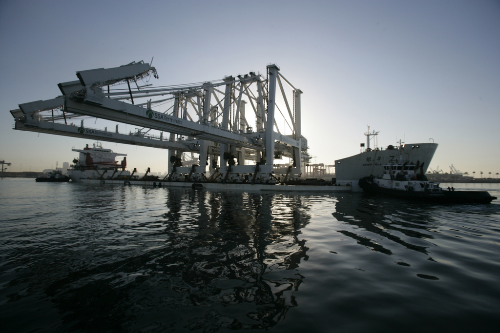 I work for the communications dept. for the Port of Long Beach and the pictures I use meet the criteria of being "free content." Zhen Hua 7 IMO Number: 8120882 MMSI Number: 377311000 Callsign: J8B2674 Length: 244 m Beam: 40 m Information about Zhen Hua 7 may be found at IMO 8120882. A ship can change her name and flag state through time, but the IMO number remains the same through the hull's entire lifetime. Therefore, it's useful to identify a ship through her IMO number.